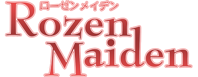 The logo of Rozen Maiden (Japanese: ローゼンメイデン).